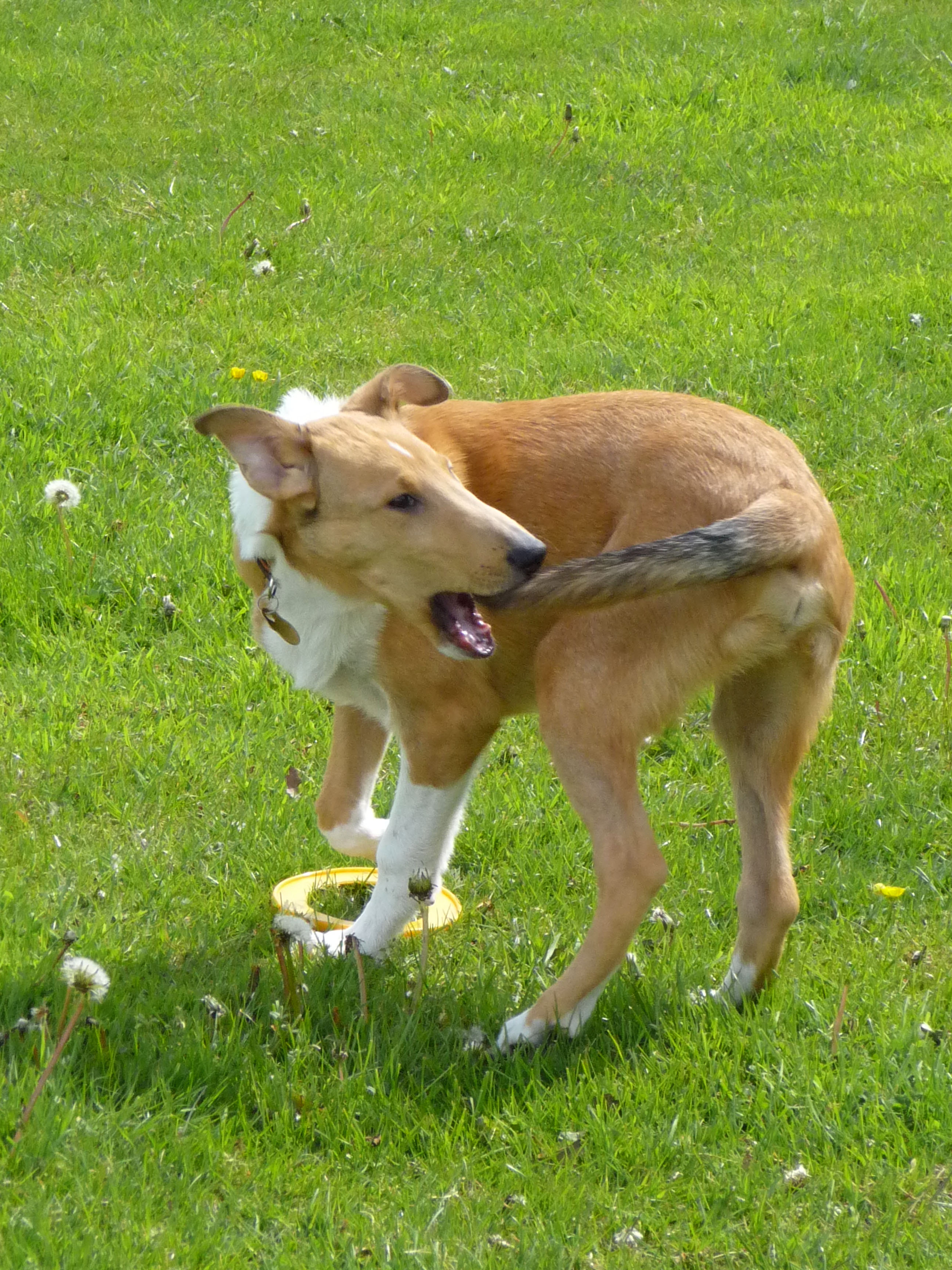 image of dog chasing it's tail